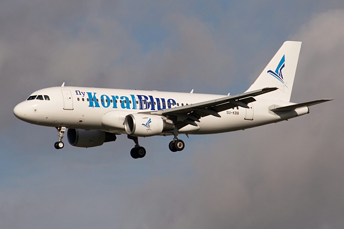 Koral Blue Airbus A319 SU-KBB